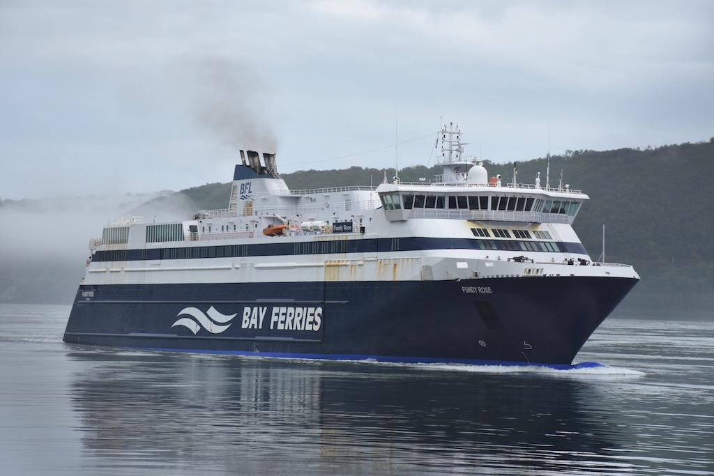 Arriving on the 8:00 am from sailing Saint John, New Brunswick to Digby, Nova Scotia.